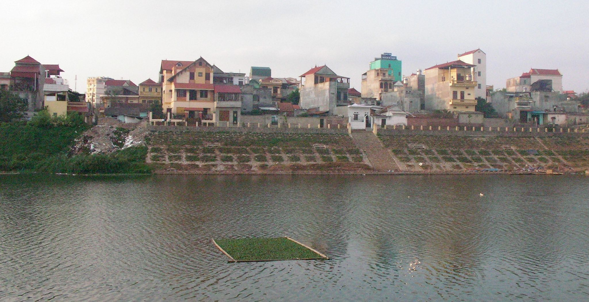 Lang Son City, Vietnam